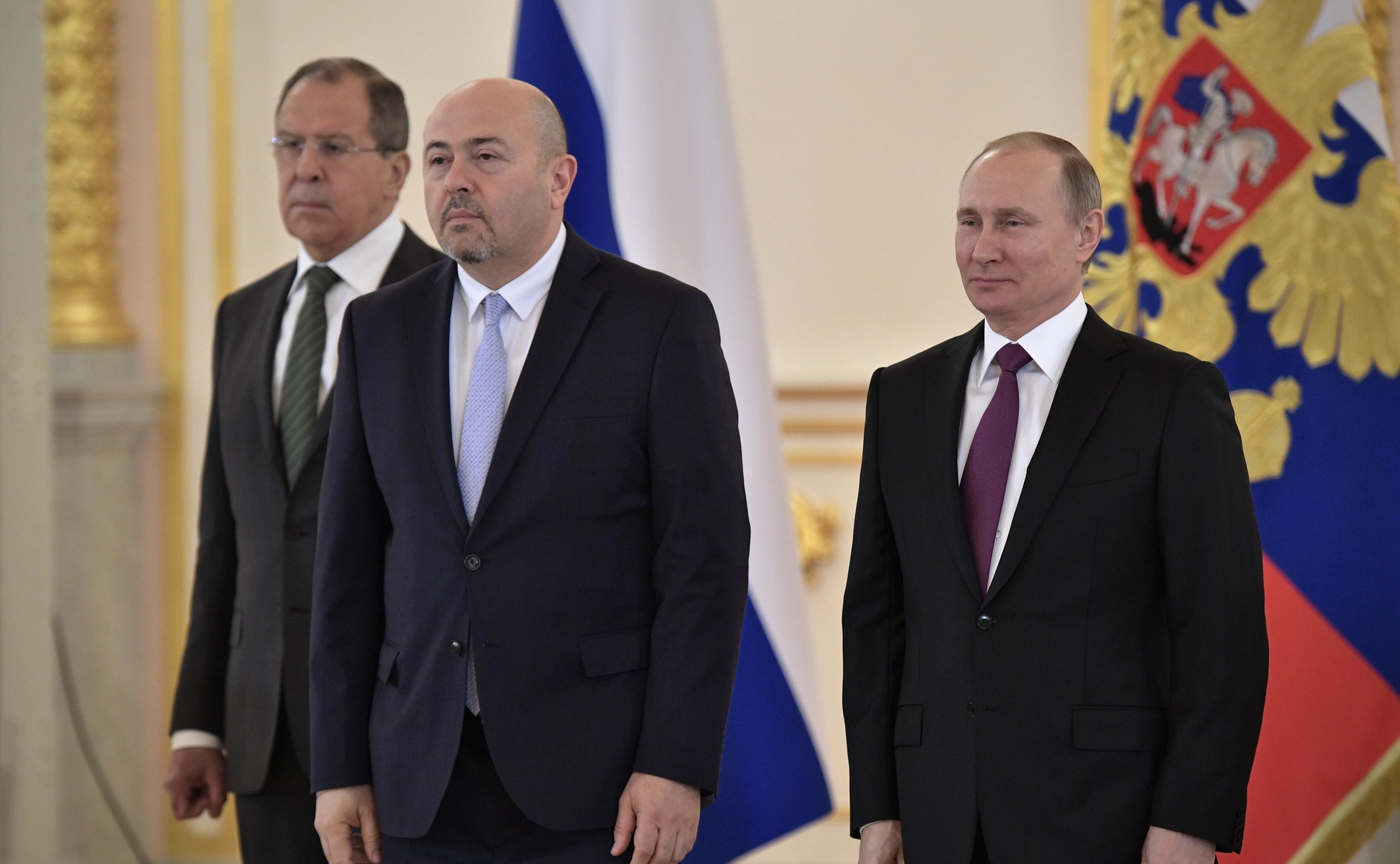 Верительную грамоту Президенту России вручил Посол Израиля Гари Корен